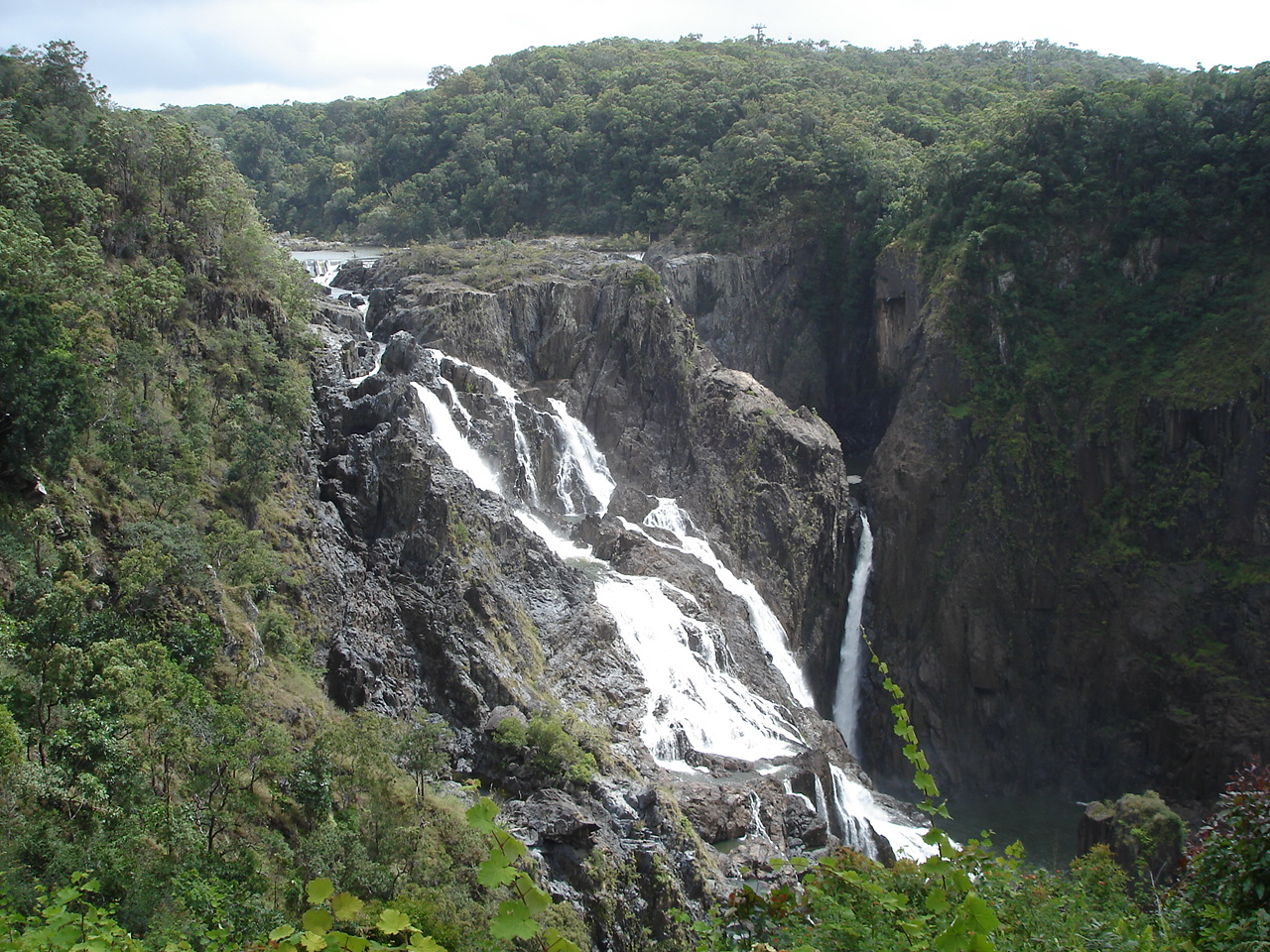 This Picture shows Barron Falls, Kuranda (Queensland, Australia) near Cairns. It has been taken by me with a Sony DSC-W15.